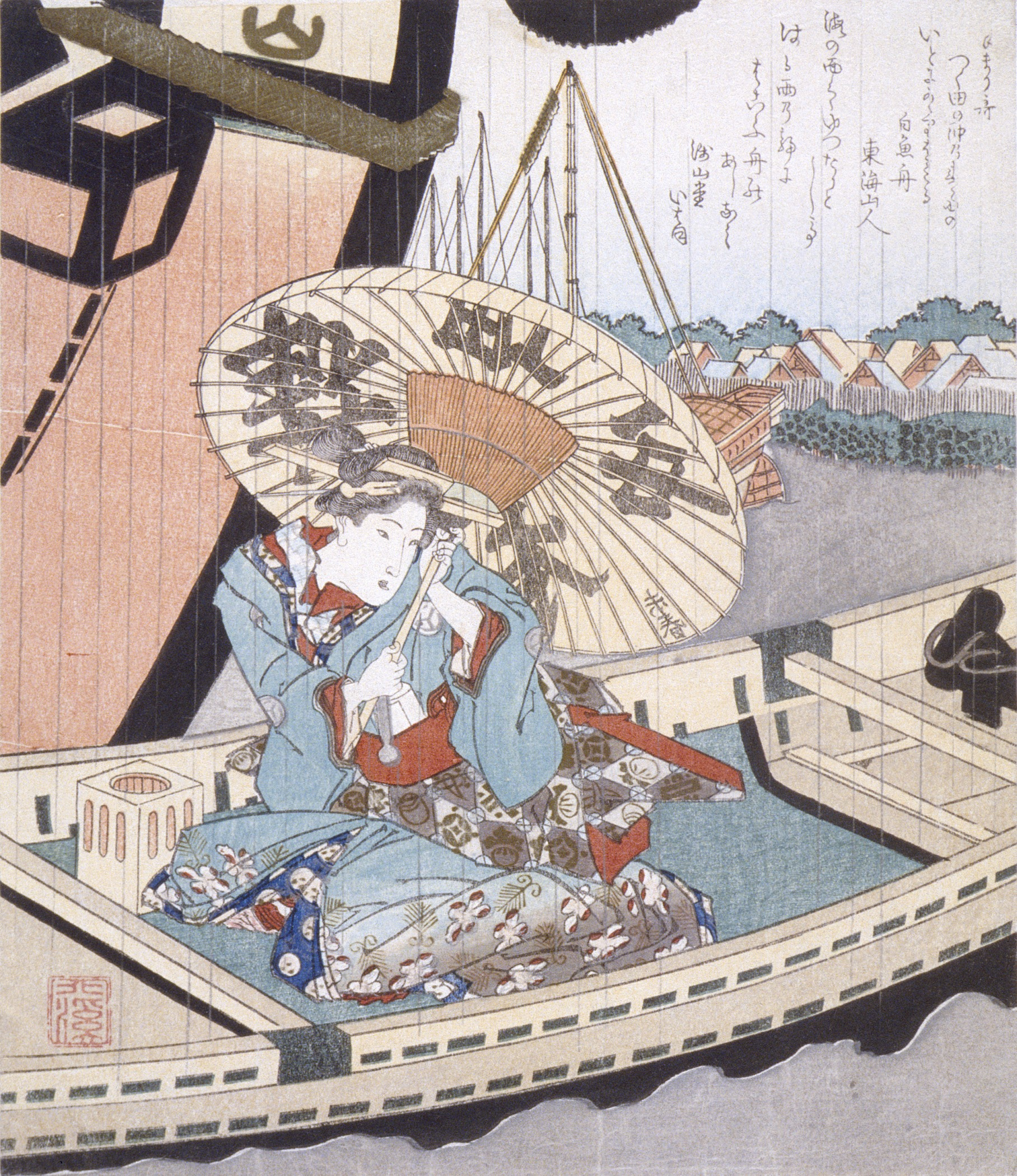 Japan, circa 1804 Prints; woodcuts Color woodblock print; surimono Gift of Carl Holmes (M.71.100.31) Japanese Art